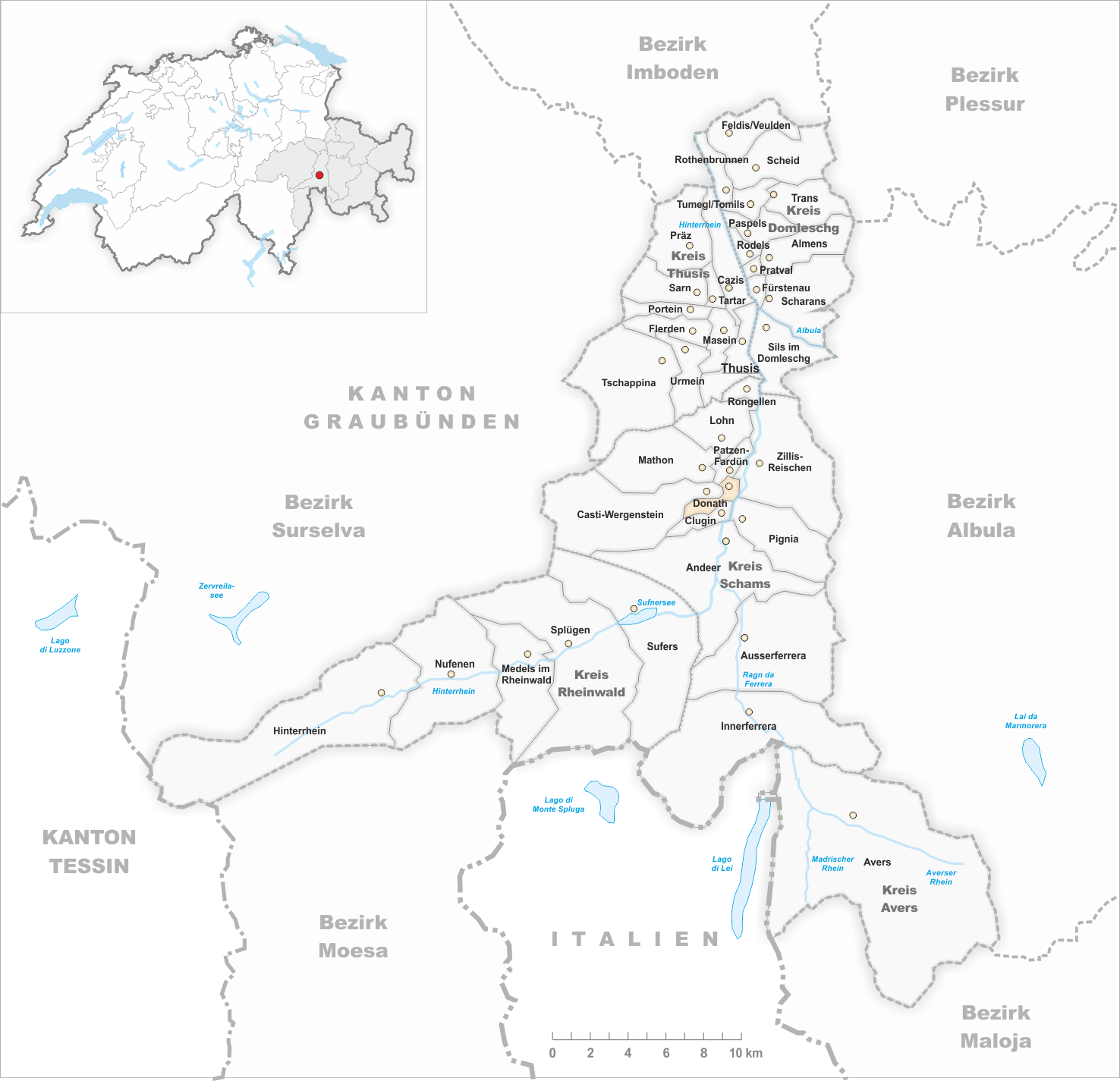 Municipality Donath Artist: Tschubby